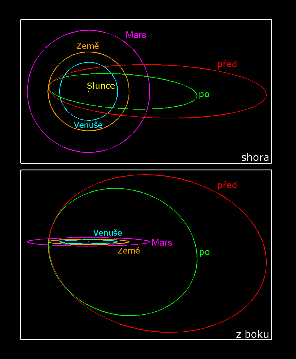 Orbital path of the Earth-grazing meteoroid of 13 October 1990 before and after it encountered Earth. Orbital paths of Venus and Mars are shown for size comparison. Note that the side view is inclined about 1 degree to allow for viewing of the planetary orbits.